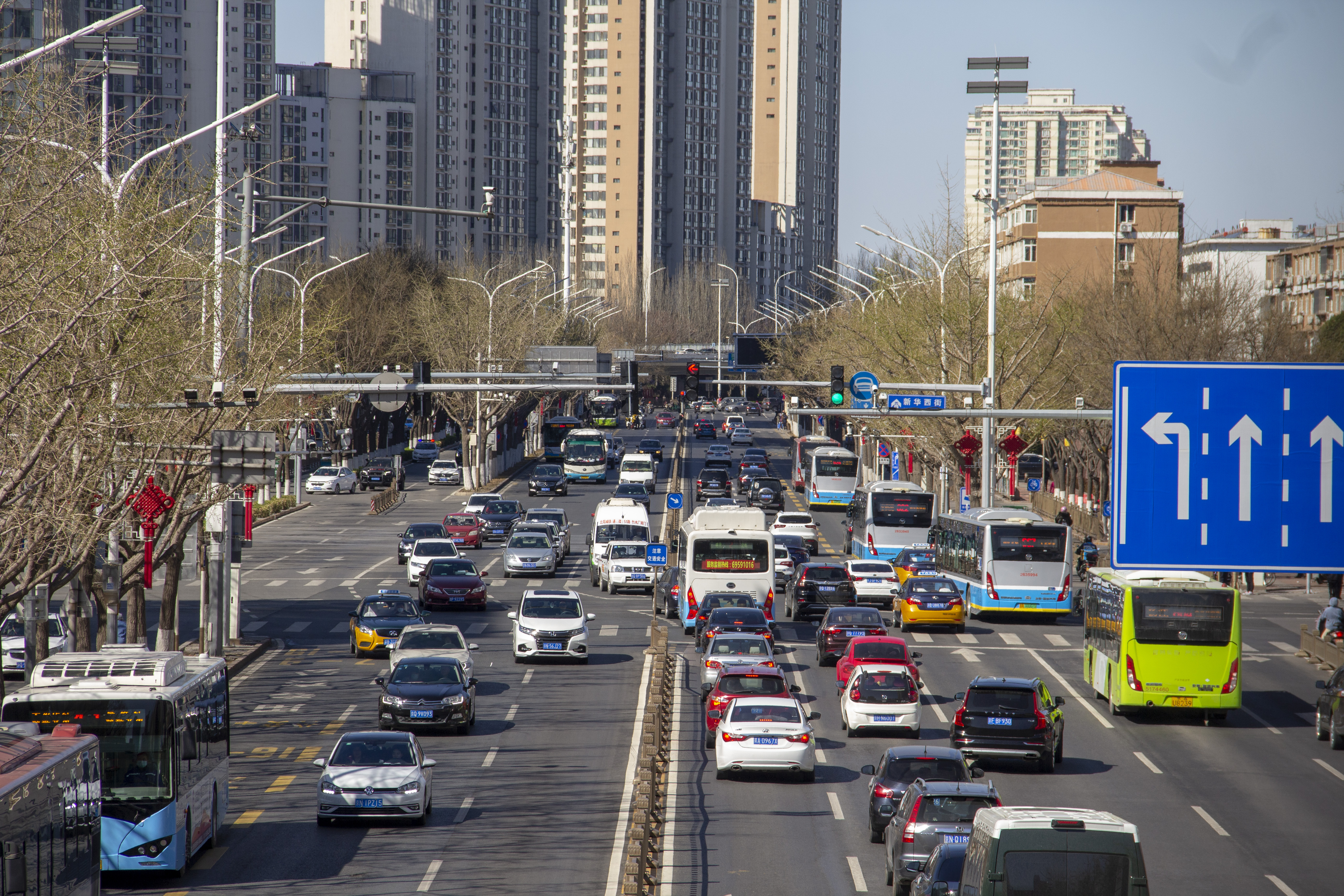 Beiyuan section, Xinhua West street